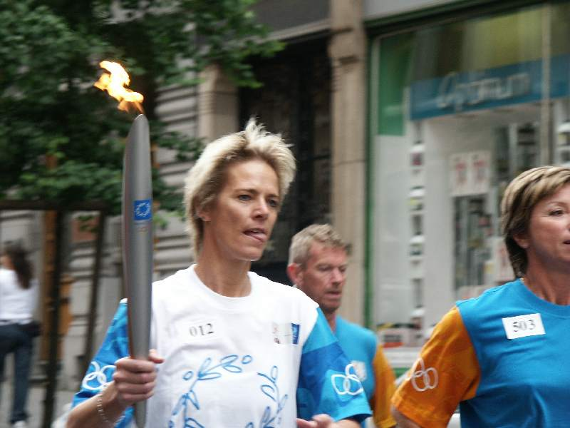 Ingrid Berghmans with the Olympic flame in Brussels, June 22, 2004